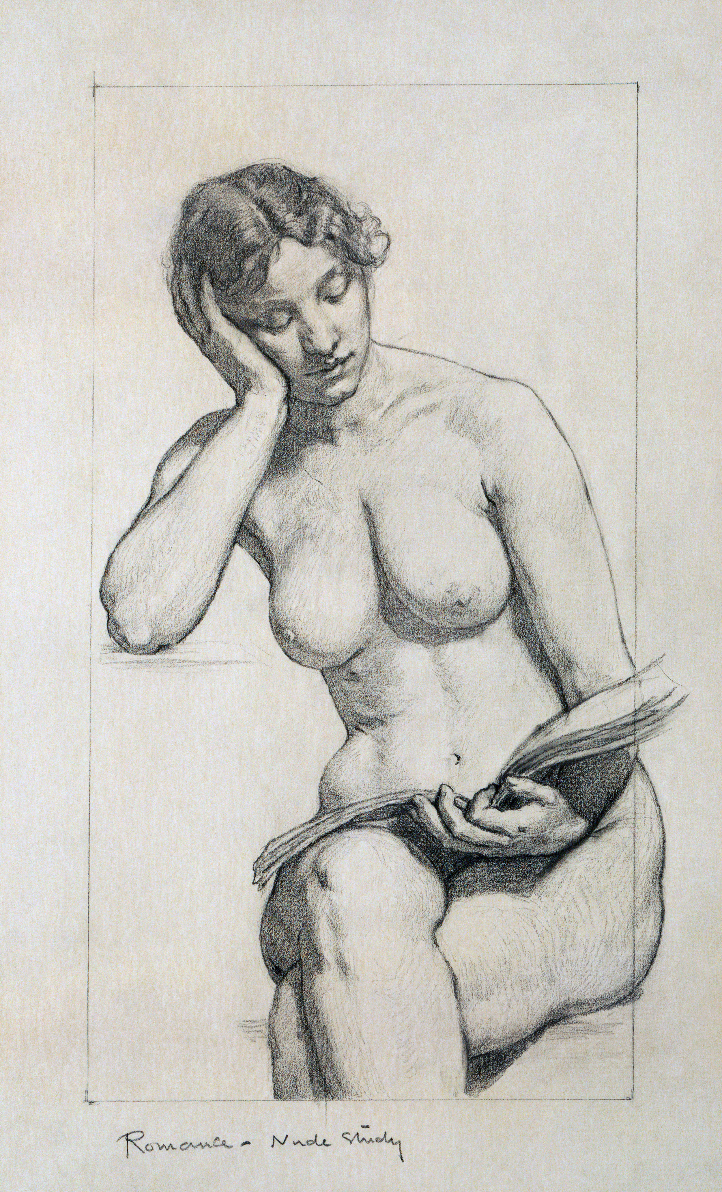 "Study drawing shows the allegorical figure of Romance nude. She bends her head to read a book on her lap. Romance was one figure in a painting, The arts, in the north end lunette of the Southwest Gallery in the Library of Congress' Jefferson Building." Graphite drawing